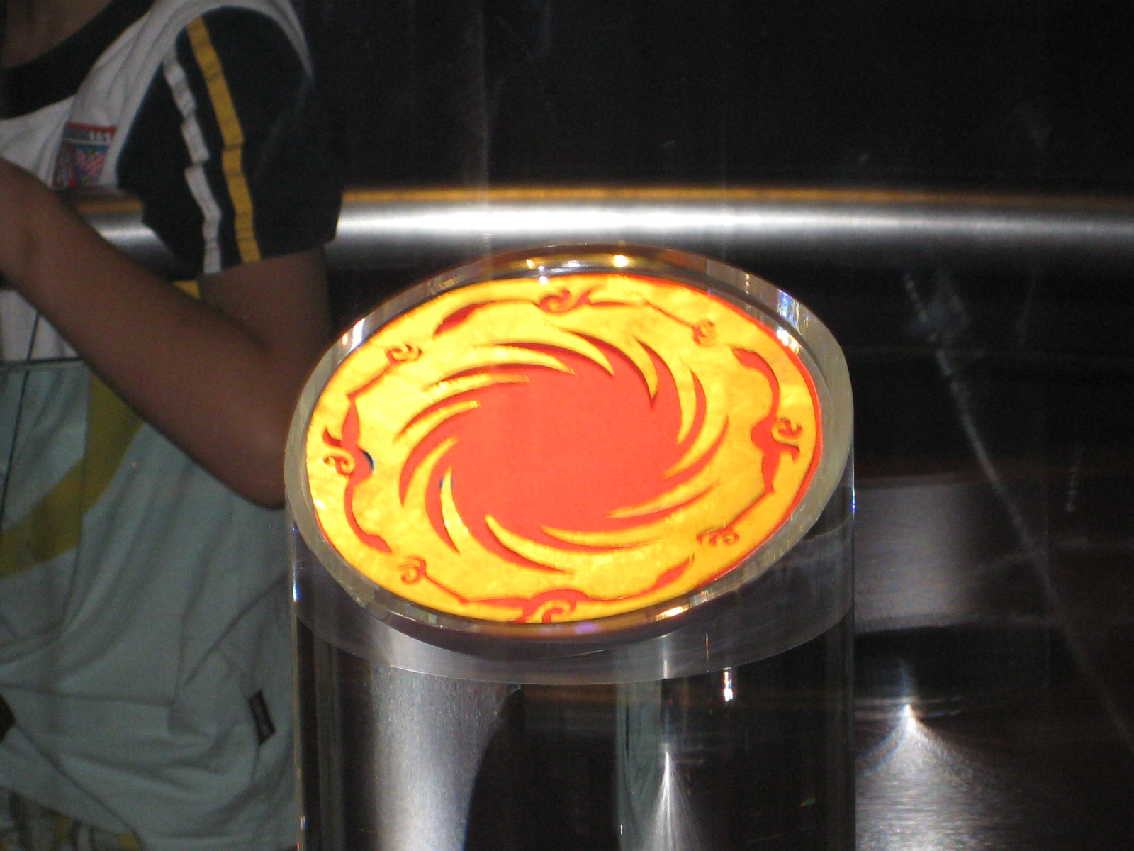 The sun and immortal bird gold ornament